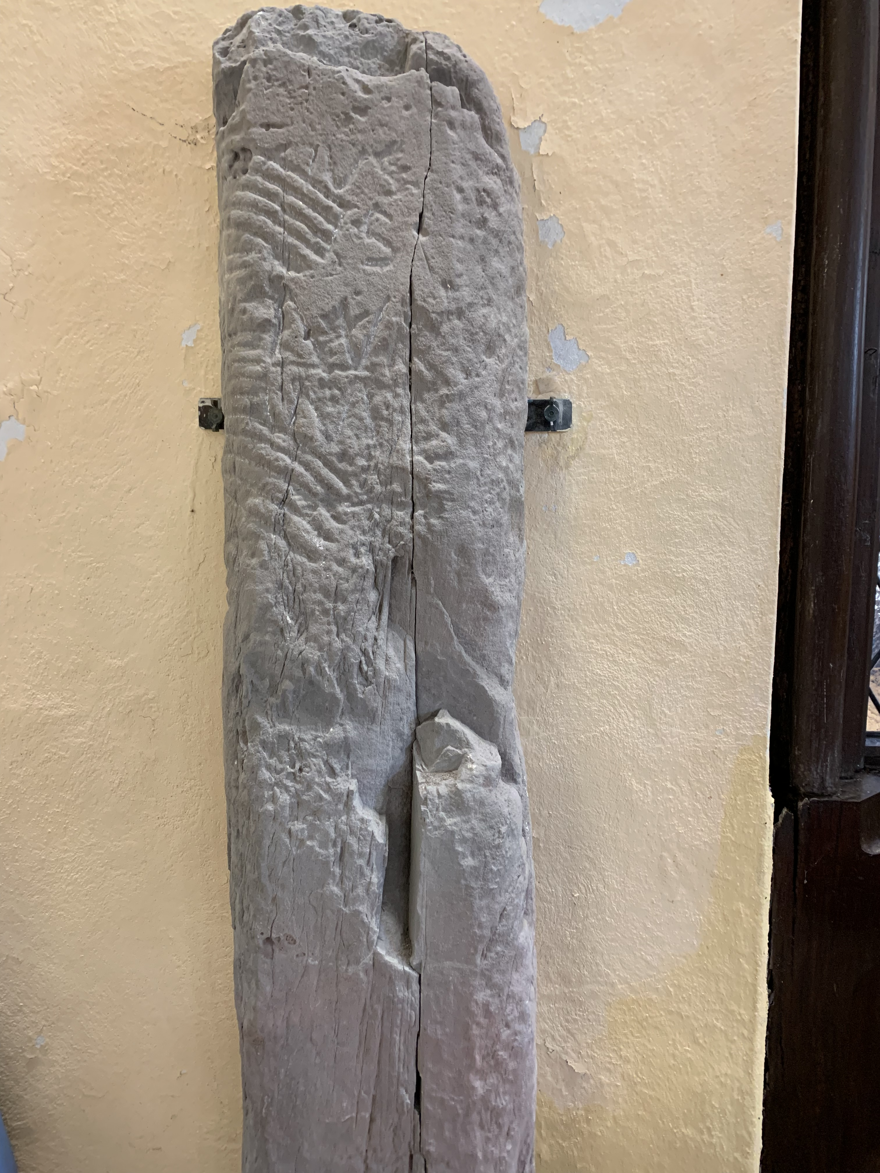 Ancient stone with Ogham inscription, known as the Aberhydfer stone